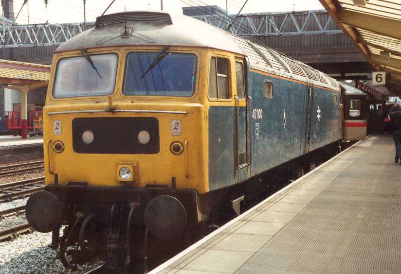 47100 in the distinctive Silver Roofed version of British Rail Blue livery